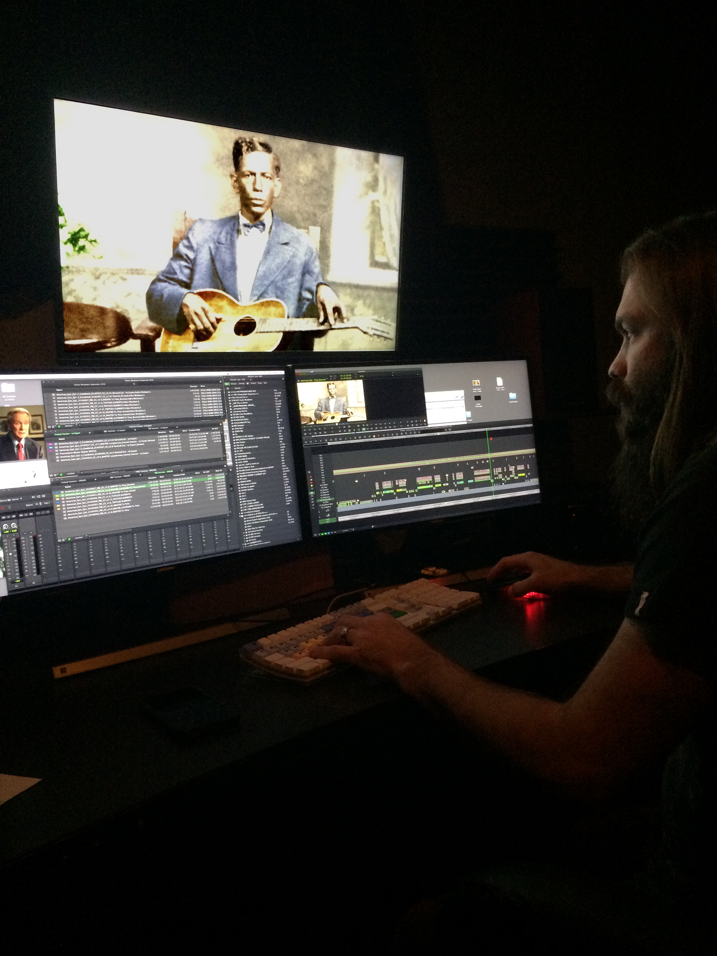 Editor Dan Gitlin at work cutting American Epic in 2016